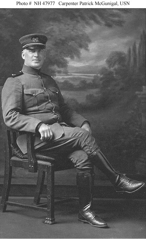 A circa 1918 photograph taken at the time he was assigned to Naval Air Station, Montauk, Long Island. He received the Medal of Honor for saving a fellow crew member on 17 September 1917, while serving on USS Huntington (Armored Cruiser # 5) as a Shipfitter First Class.